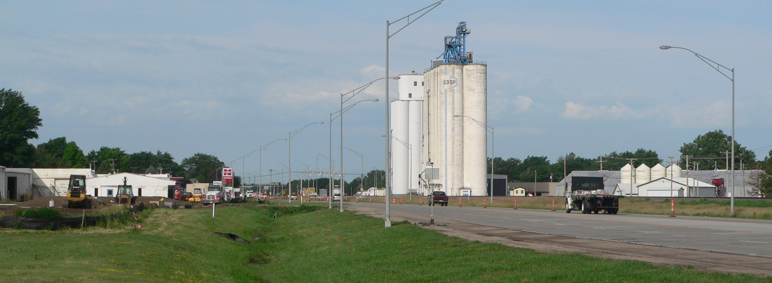 Waverly, Nebraska, seen from the northeast along U.S. Highway 6.